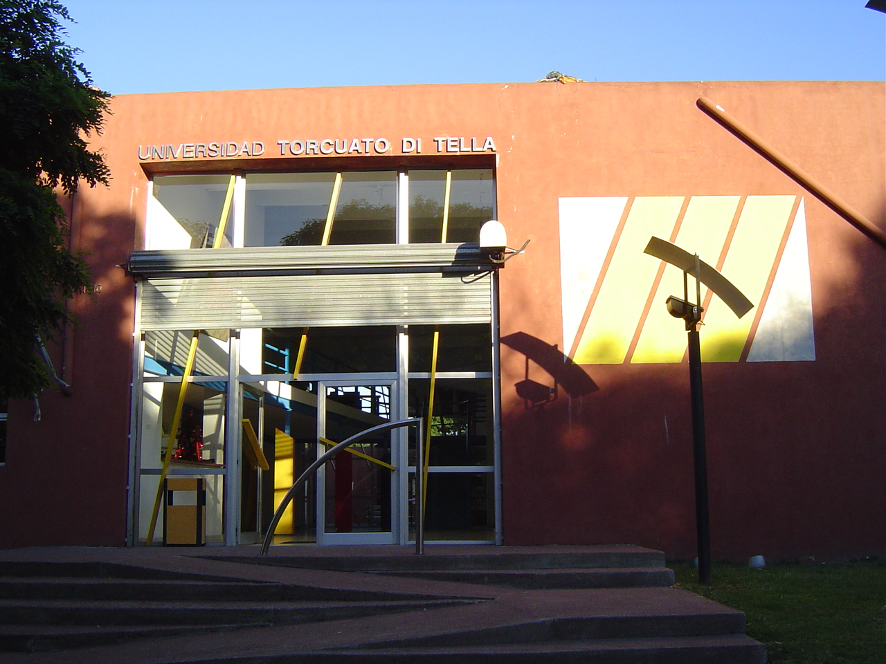 The Torcuato Di Tella University's Alcorta building.